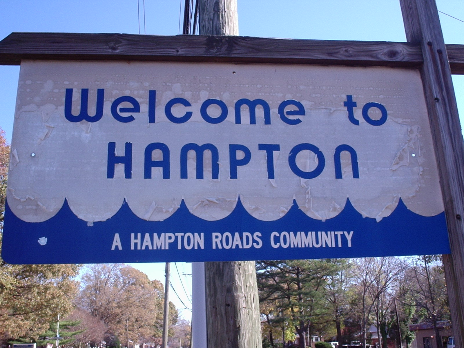 Photo by William J. Grimes on Todds Lane in Newport News.